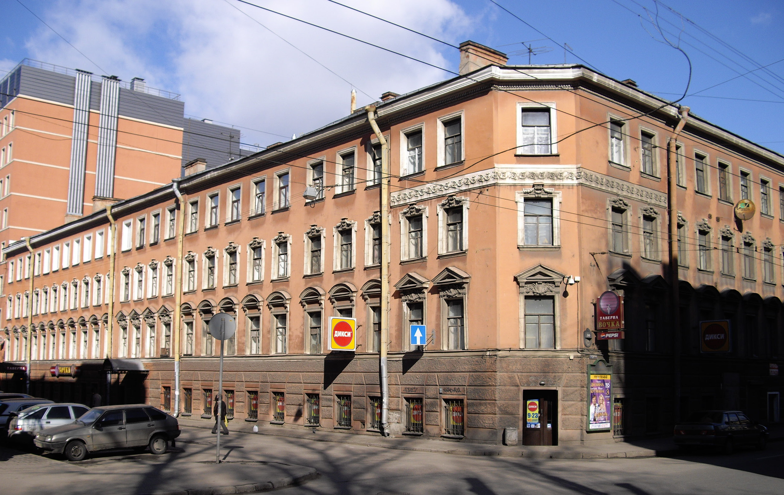 30, Bolshaya Pushkarskaya street / 1, Shamsheva Street (Saint Petersburg, Russia). 1877-1878, architect Pavel Suzor.